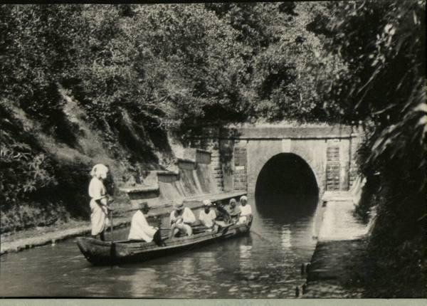 Varkala tunnel